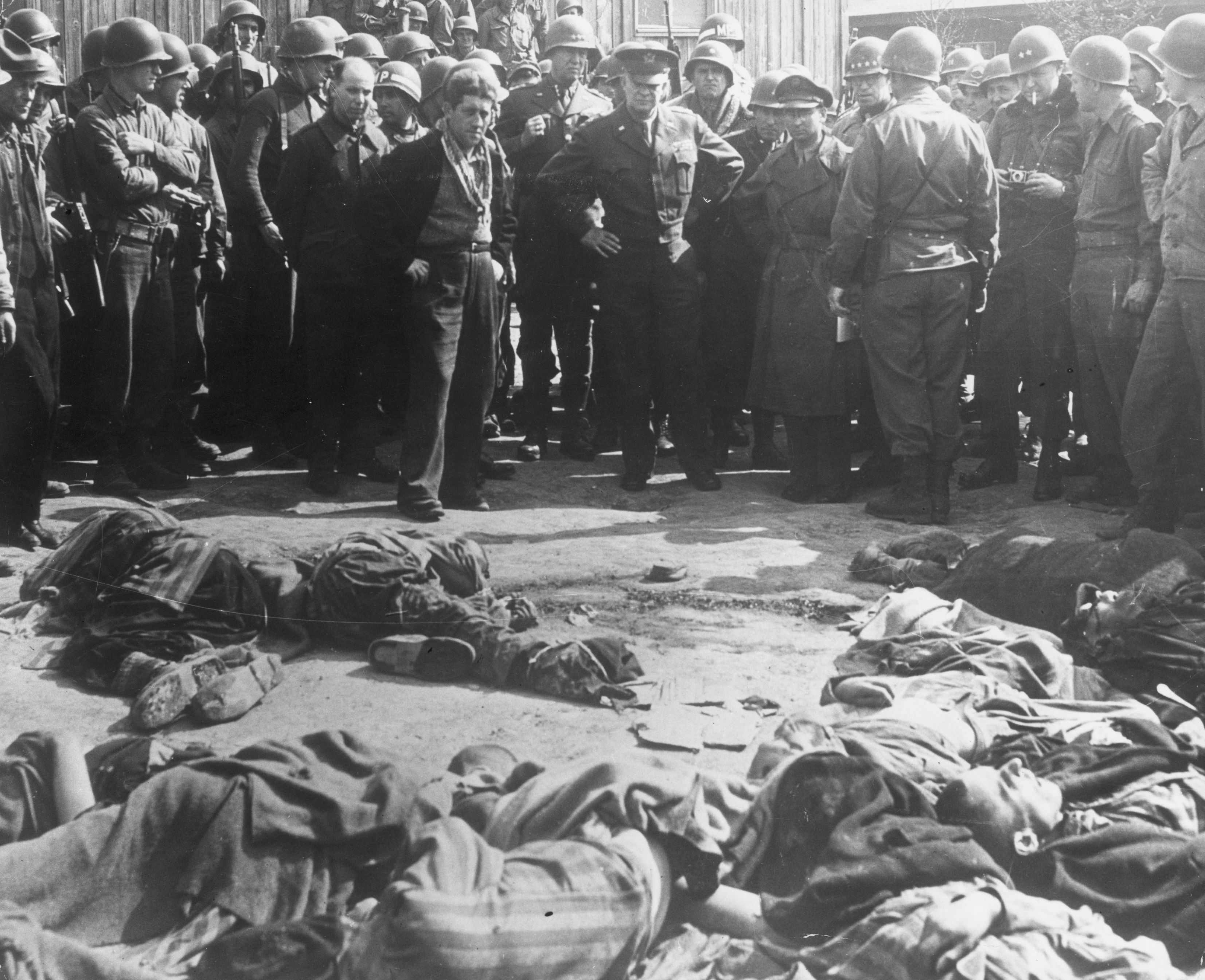 Supreme Allied Commander General Dwight Eisenhower inspects bodies at concentration camp 1945. Caption reads: (WX5-APRIL) EISENHOWER VISITS FORMER CONCENTRATION CAMP-- Gen. Dwight D. Eisenhower, Supreme Allied Commander, (standing center, hands on hips) gazes at the bodies of dead Russian and Polish internees at the former German concentration camp at Ohrdruf, while touring the Third Army front with other Generals, April 12. (AP wirephoto from signal corps radiophoto)(wd11413)1945